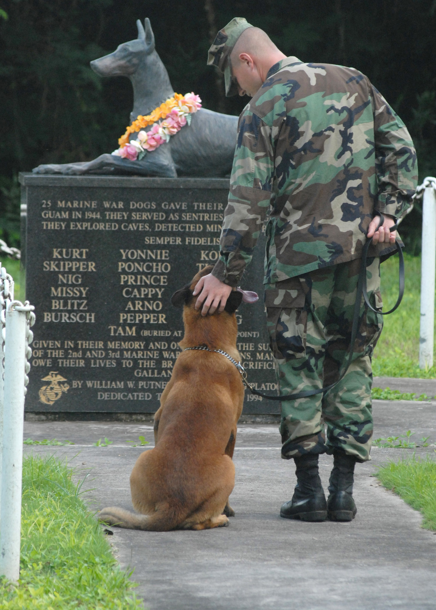 Santa Rita, Guam (Oct. 27, 2006) - Petty Officer 2nd Class Blake Soller, a Military Working Dog (MWD) handler pets the head of his MWD Rico, at the War Dog Cemetery located on Naval Base Guam. Soller is currently assigned to Naval Security Force Detachment Guam to the MWD kennel. U.S. Navy photo by Petty Officer 2nd Class John F. Looney (RELEASED) Incription from memorial commemorating World War II combat dogs... 25 Marine War Dogs gave their lives liberating Guam in 1944. They served as sentries, messengers, scouts. They explored caves, detected mines and booby traps. - SEMPER FIDELIS Kurt, Yonnie, Koko, Bunkie, Skipper, Poncho, Tubby, Hobo Ni, Prince, Fritz, Emmy, Missy, Cappy, Duke, Max, Blitz, Arno, Silver, Brockie, Bursch, Pepper, Ludwig, Rickey, Tam (buried at sea off Asan Point). Given in their memory and on behalf of the surviving men of the 2nd and 3rd marine war dogs platoons, many of whom owe their lives to the bravery and sacrifice of these gallant animals.